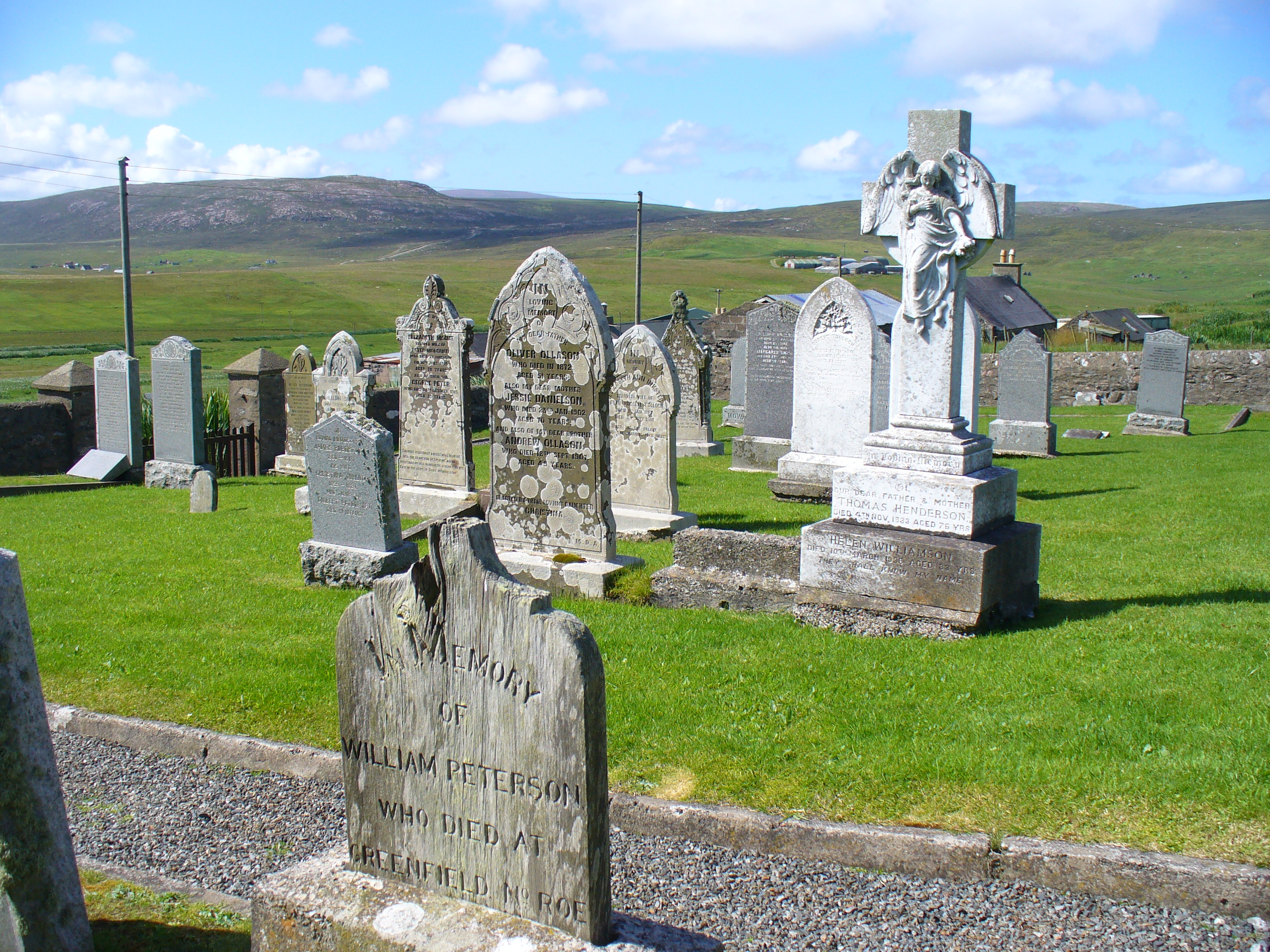 Isbister Kirkyard